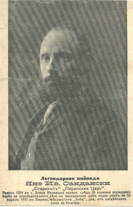 Memory list of Yane Sandanski from his death in 1915